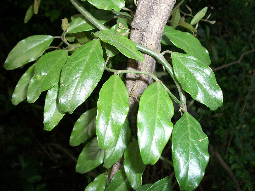 Capparis fascicularis var. fascicularis from Athlone Park, Amanzimtoti, KwaZulu-Natal, South Africa.